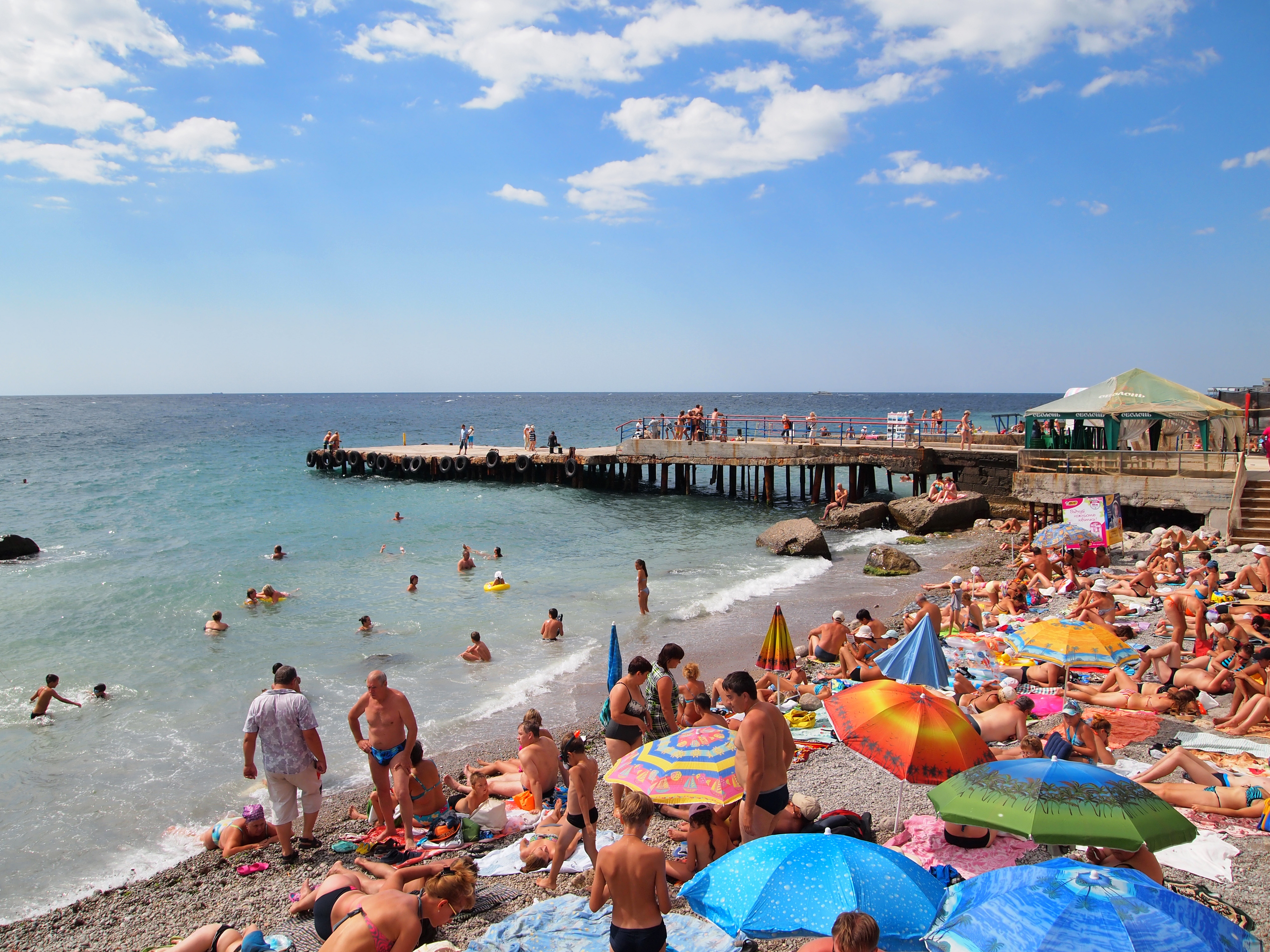 View on a beach of Koreiz, Crimean peninsula, Ukraine. This photograph was taken with a Olympus E-PL1.